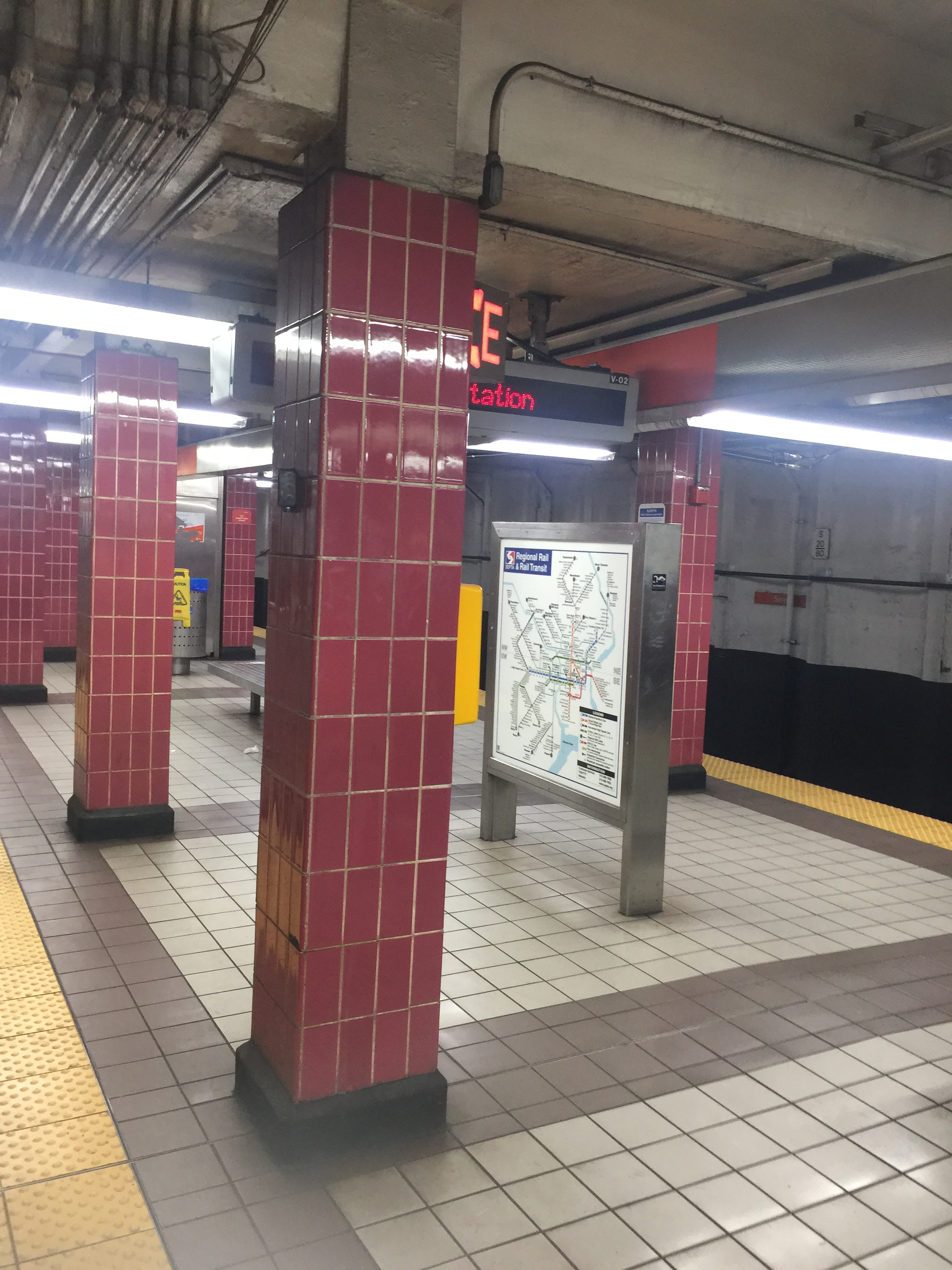 Snyder